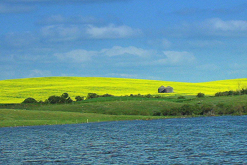 Canola Field in Saskatchewan